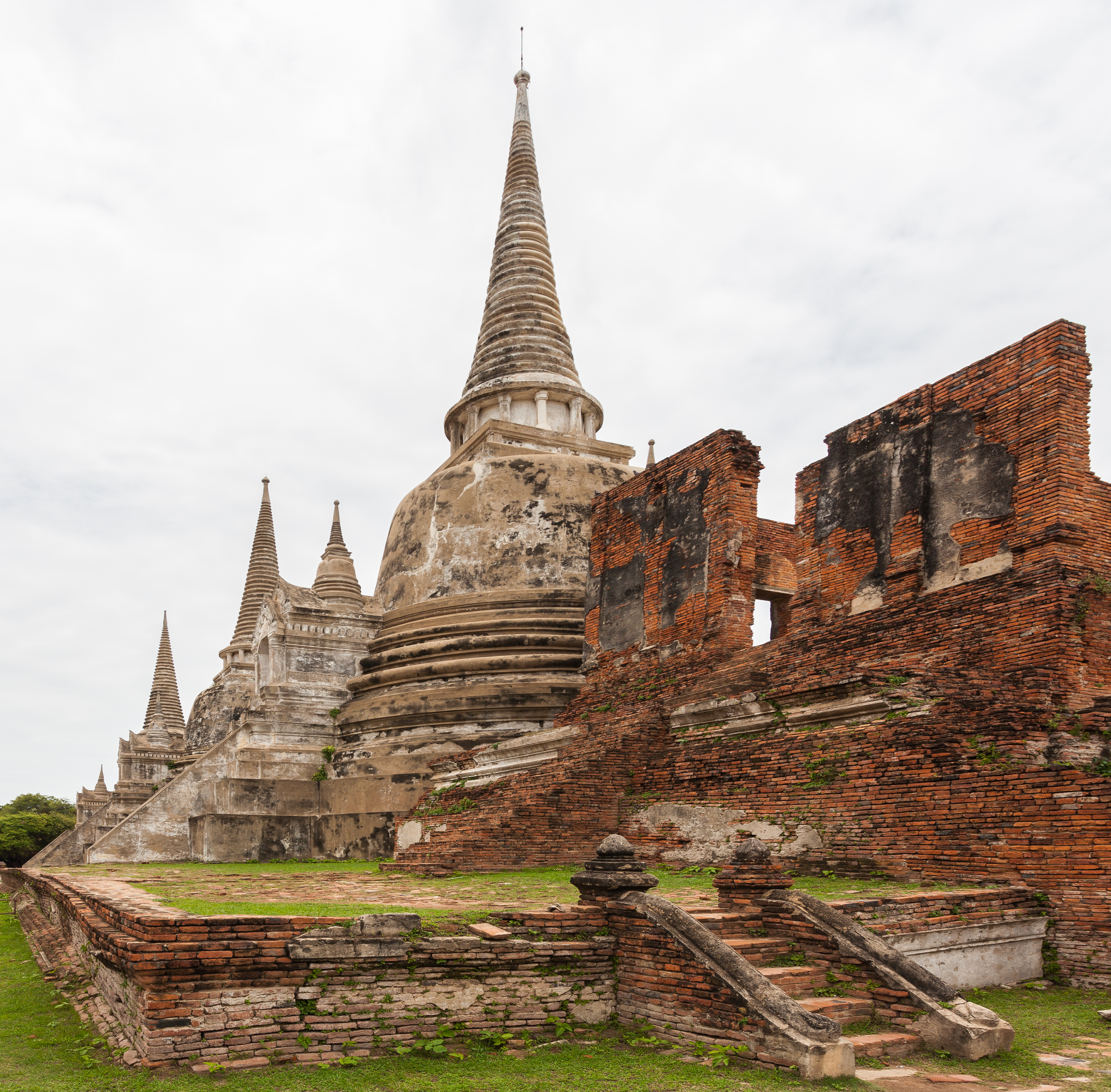 Templo Phra Si Sanphet, Ayutthaya, Tailandia